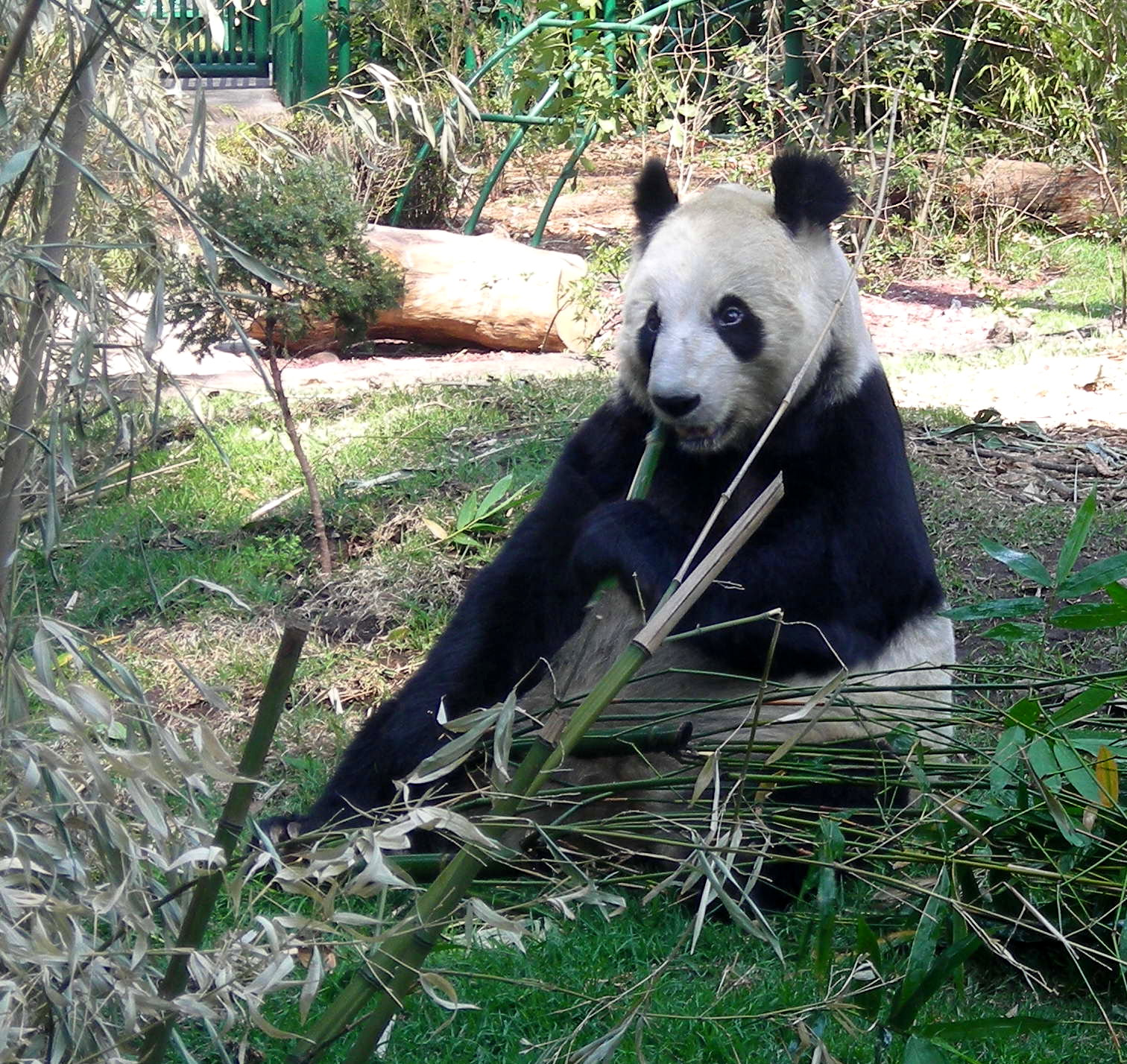 One of the three giant pandas living at the Chapultepec zoo (Mexico City) in 2011 (probably Shuan Shuan and Xin Xin)